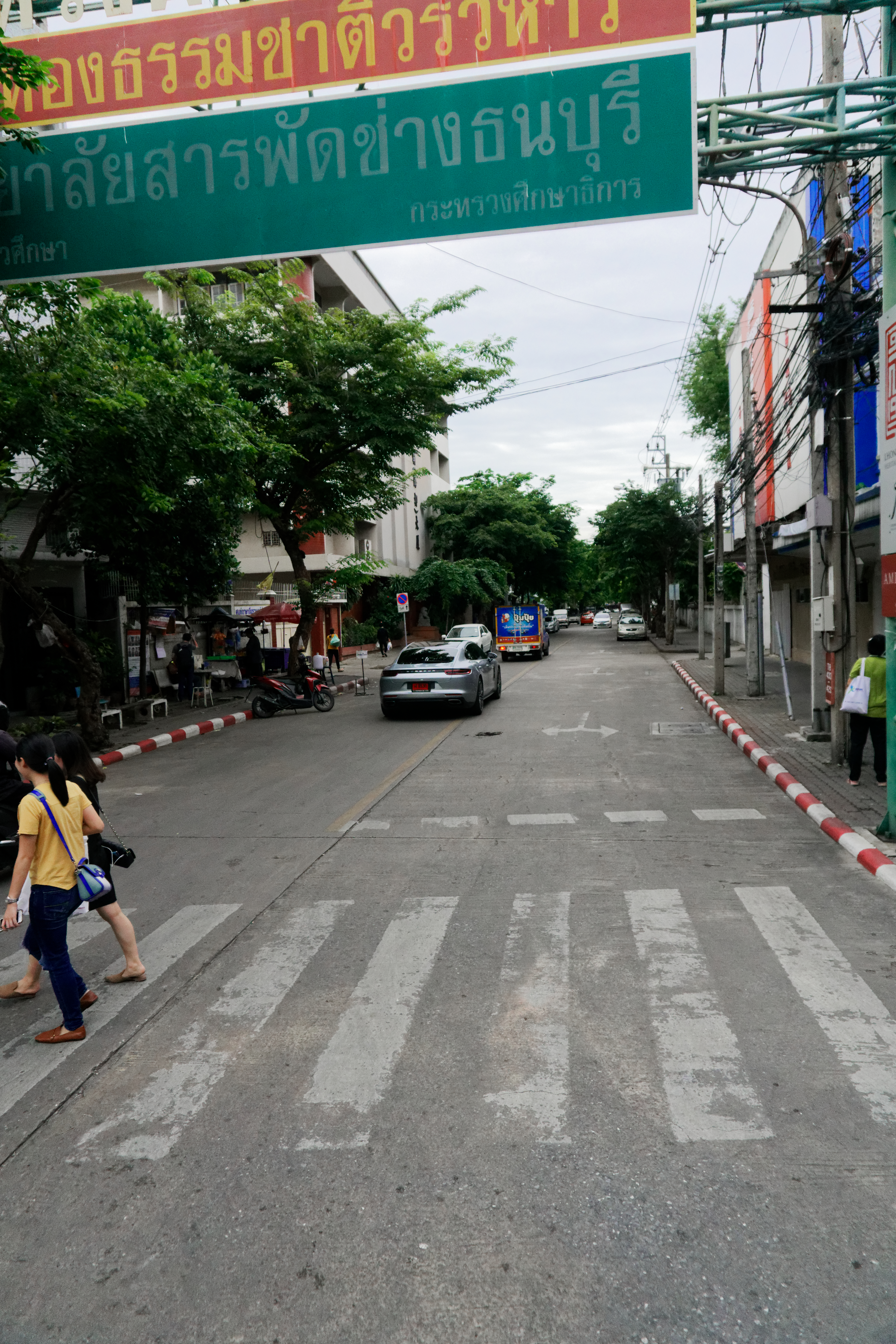 Chiang Mai road entrance section